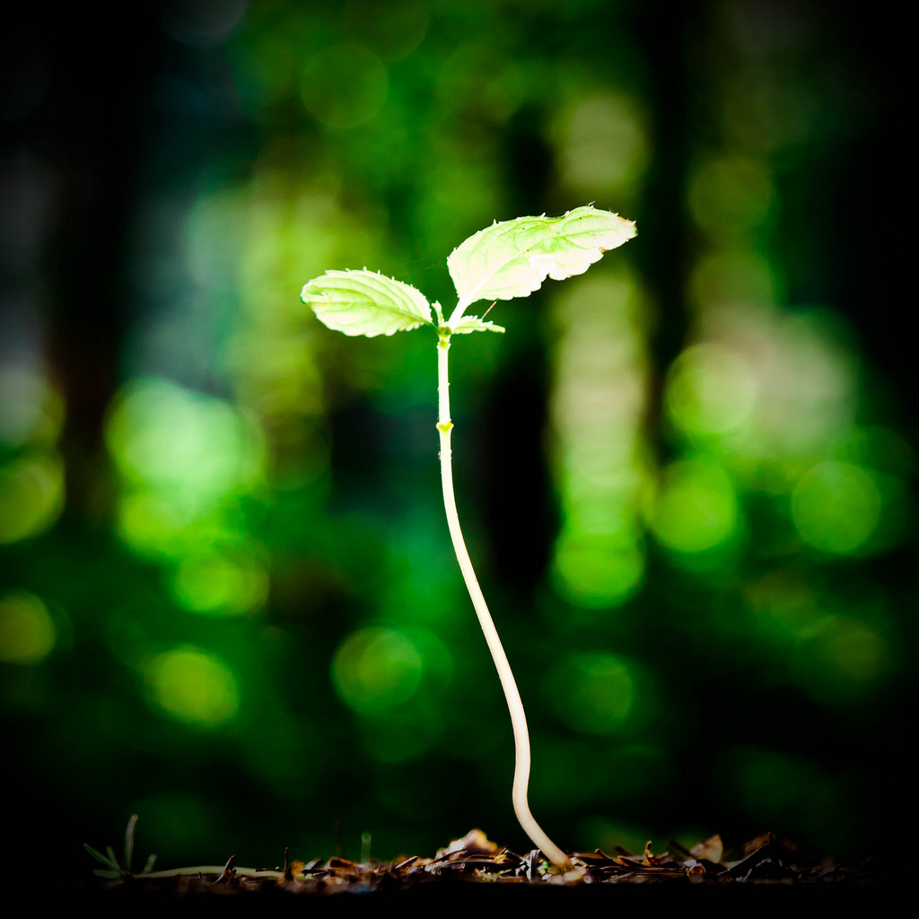 Seedling